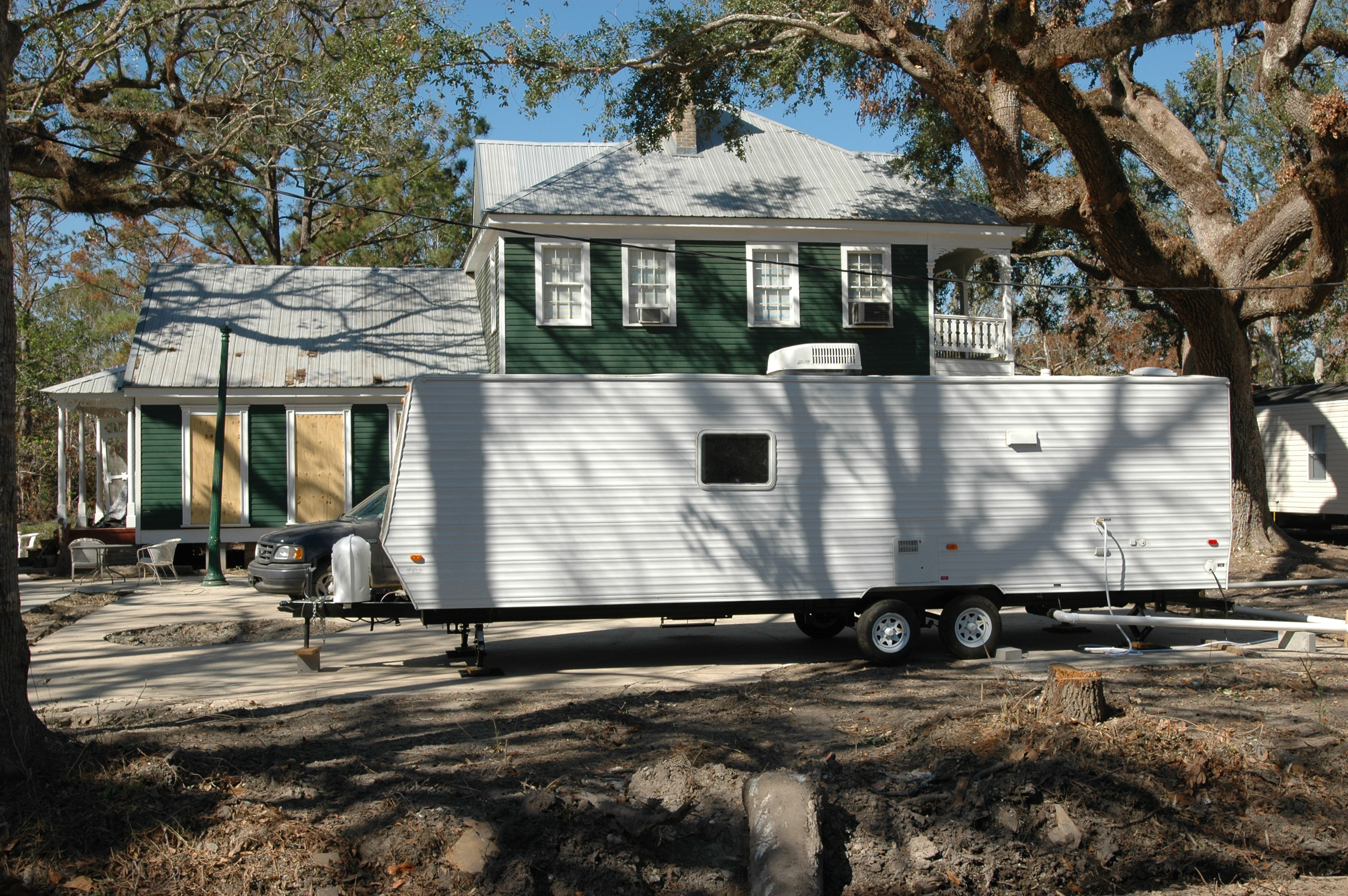 Pearlington, Miss., October 27, 2005 -- FEMA travel trailers have been sited on the property of Pearlington, Miss. residents who are displaced from their homes. Pearlington, the western most city on the coast of Mississippi, was severely affected by Hurricane Katrina. FEMA/Mark Wolfe